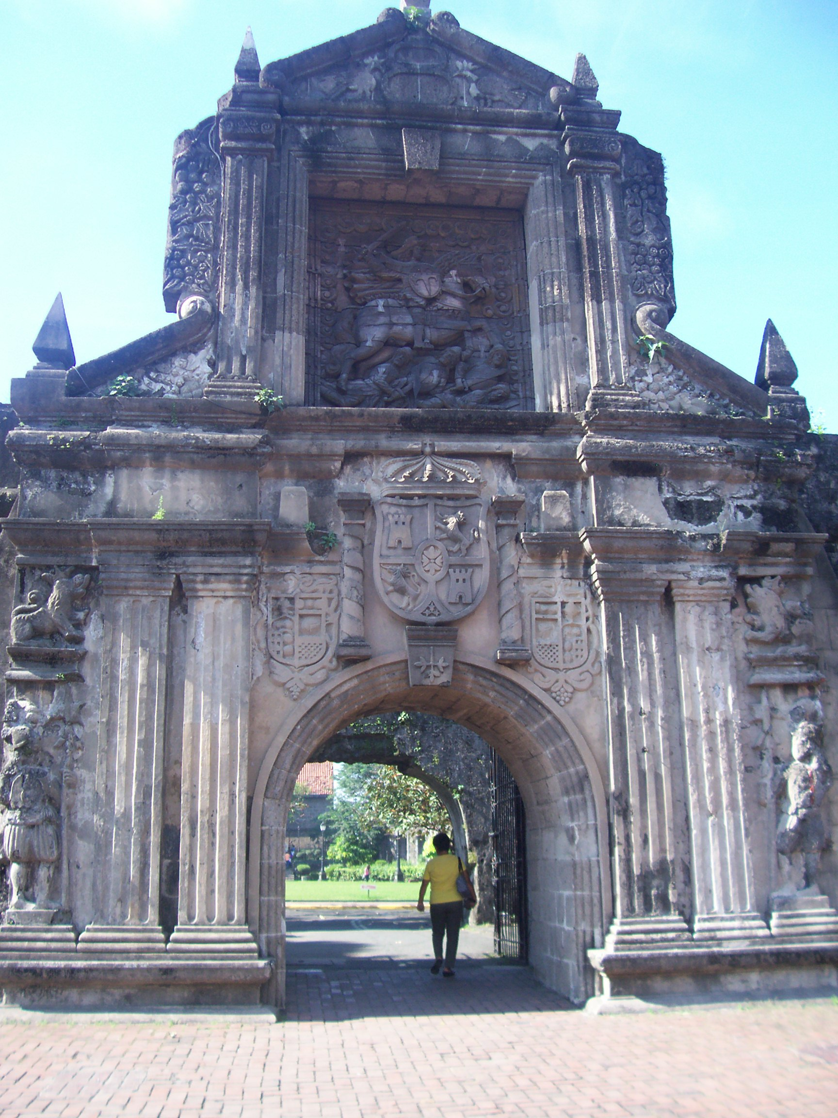 Entrance of Fort Santiago, Intramuros in 2011 Bikol Central: An entrada kan Fort Santiago sa Intramuros, 2011